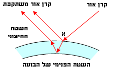 In the diagram above a ray of light hits the surface at point X. Some of the light is reflected, but some travels through the bubble wall and is reflected at the other side